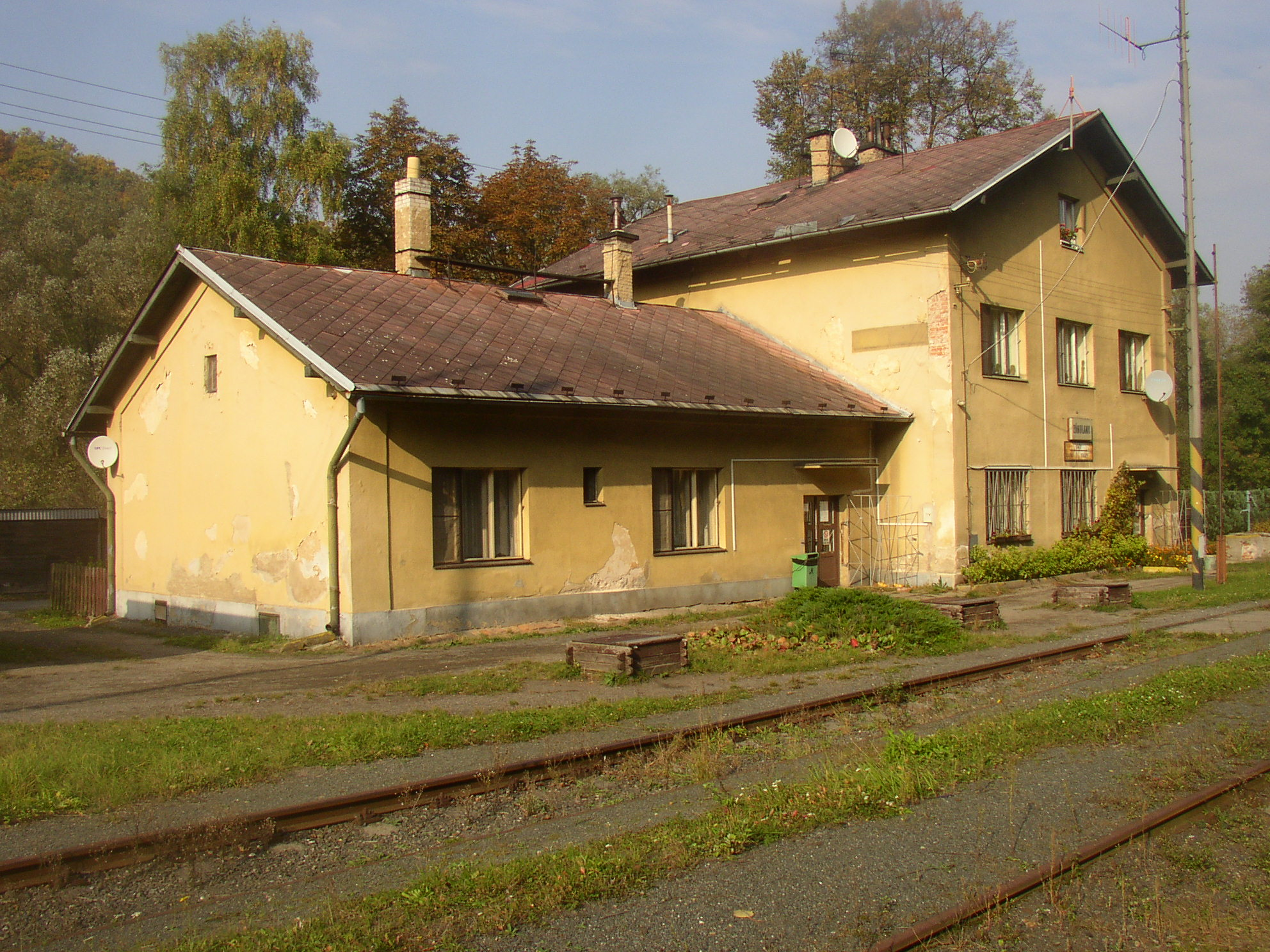 Building of Zákolany railway station on line 093 Kralupy nad Vltavou - Kladno in the Czech Republic.